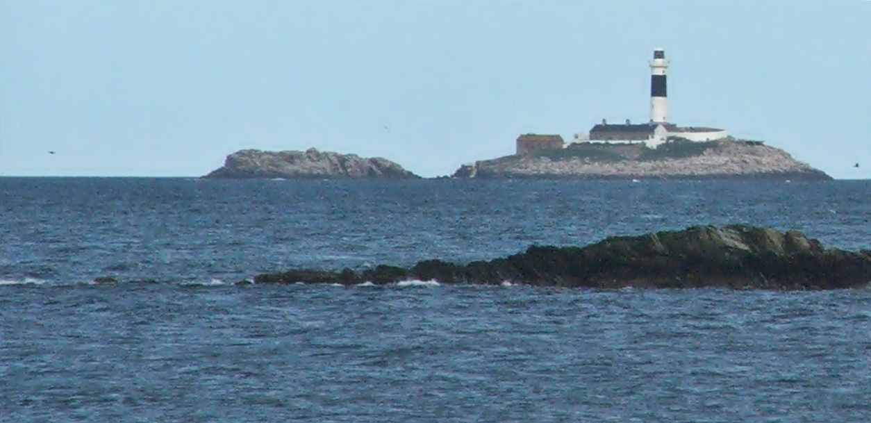 This picture is a bit grainy as it was taken at great distance and then cropped.